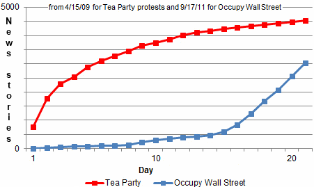 Comparison count of news stories on Tea Party movement and Occupy Wall Street protests